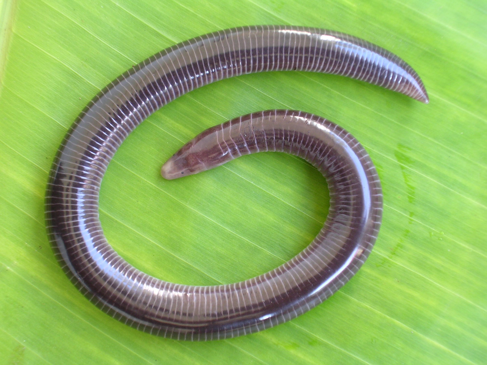 Uraeotyphlus interruptus habitus